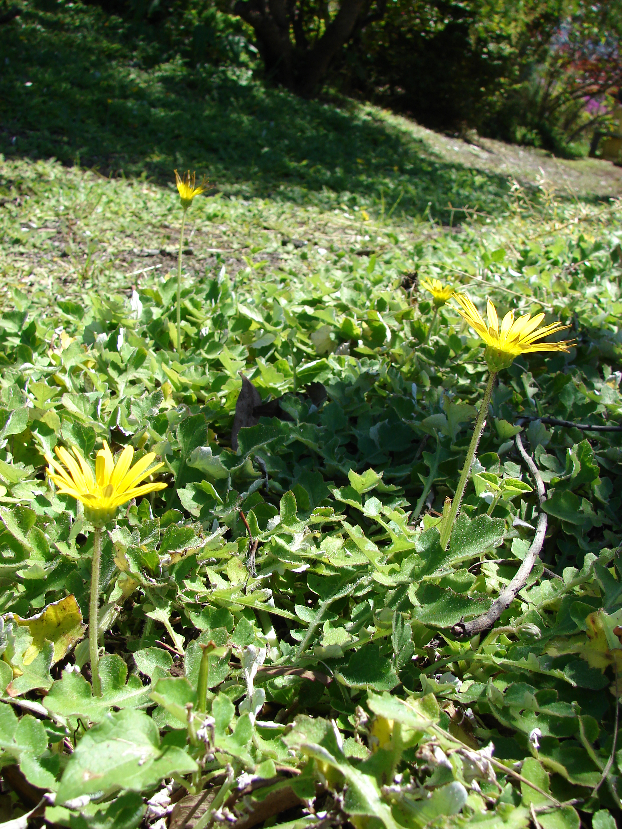 Arctotheca calendula (flowering habit). Location: Maui, Enchanting Floral Gardens of Kula